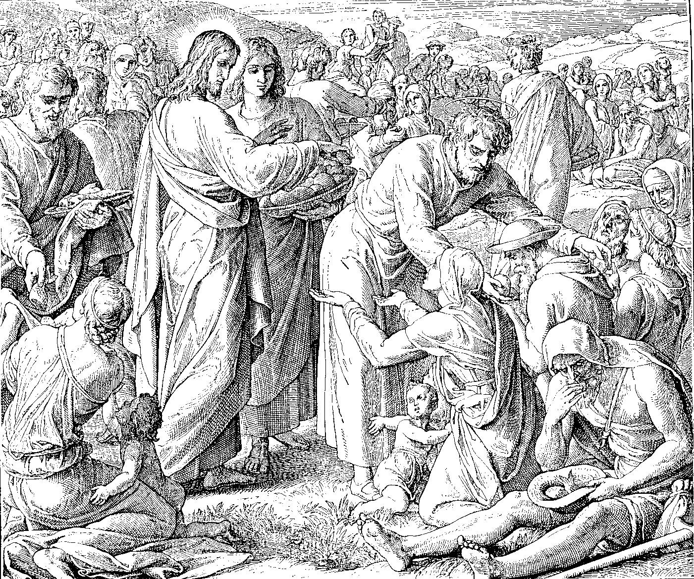 Woodcut for "Die Bibel in Bildern", 1860.